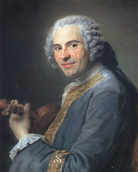 Original replica of the portrait exhibited at the Salon of 1747 (now in the Art Institute of Chicago)